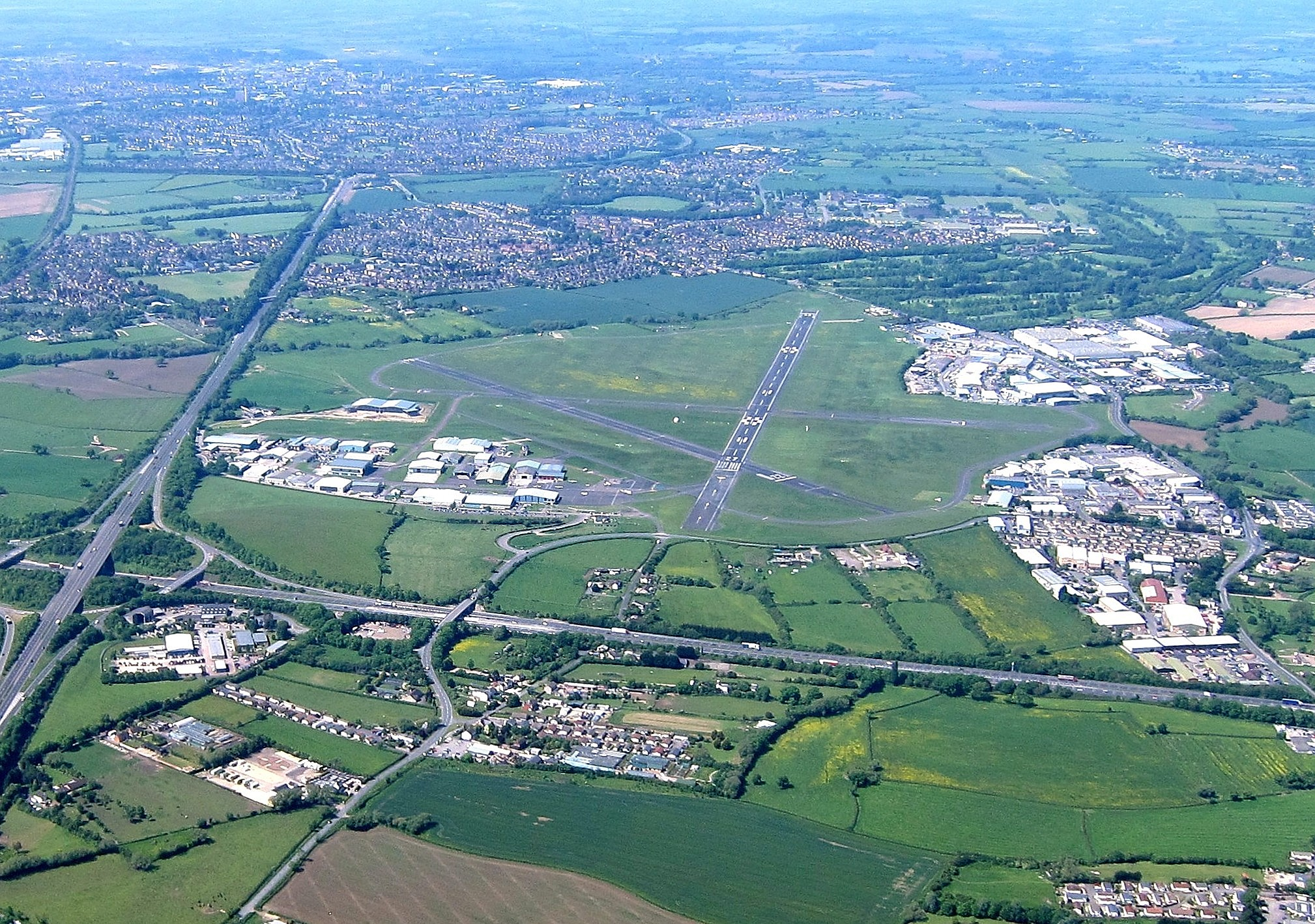 An aerial view of Gloucestershire Airport, Gloucestershire, England. Looking WEST from the open window of a landing Piper Cherokee Warrior (reg G-BBXW) during a pleasure flight from the airport. Running up and down the picture (on the left) is the straight A40 London to Fishguard road, and running across the picture (at the bottom) is the M5 motorway from Exeter to Birmingham. In the distance is Innsworth and then Gloucester. The aircraft was a Piper Cherokee Warrior (G-BBXW).